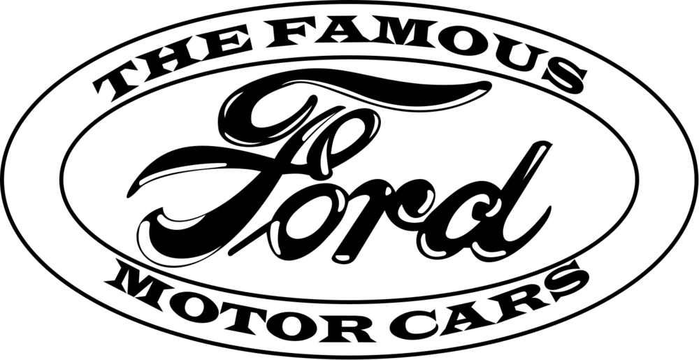 One of the first logos of the Ford Motor Company